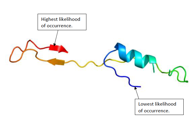 This is the predicted protein structure of C21orf62 in humans. This image does not span the entire gene and is a theoretical estimate of structure based on amino acid and base pair interactions.